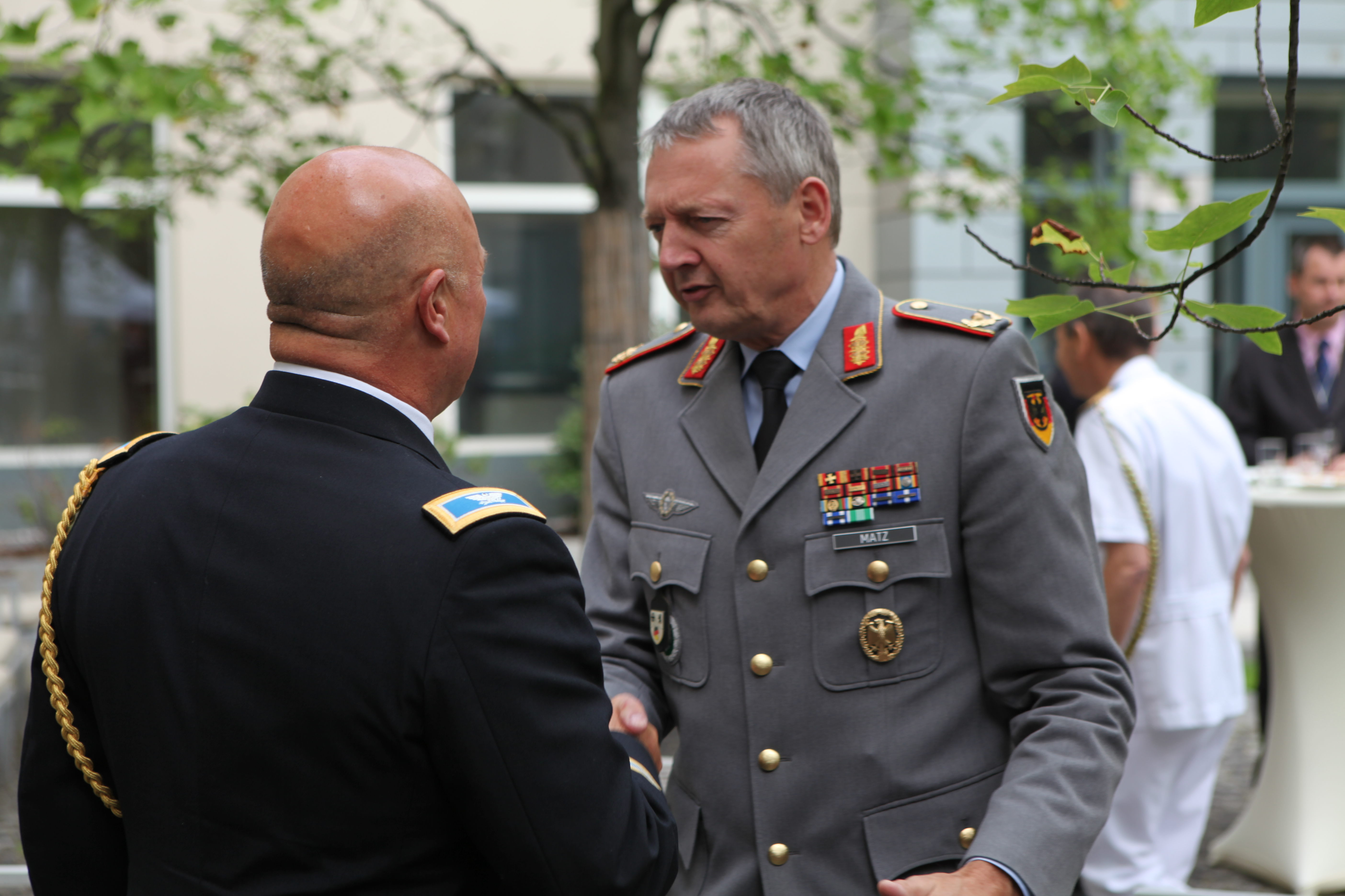 Gregory J. Broecker (L) and German General Michael Matz (R), July 2015